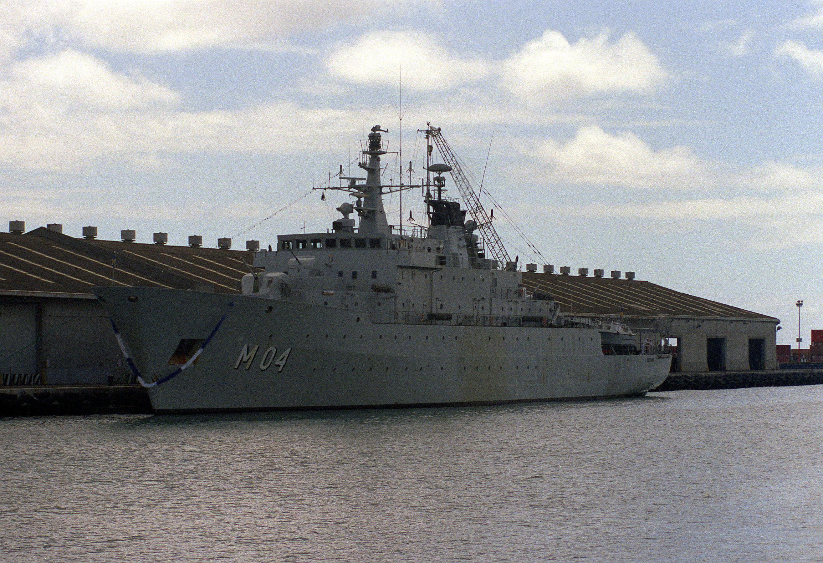 The Swedish minelayer CARLSKRONA (M-04) lies tied up during a visit to the naval station. The CARLSKRONA is also used as a midshipmen's training ship.